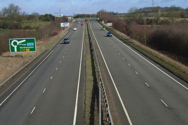 The A43, Brackley The dual carriageway links the M1 near Northampton and the M40 near Oxford. The last stretches of dual carriageway were completed recently.